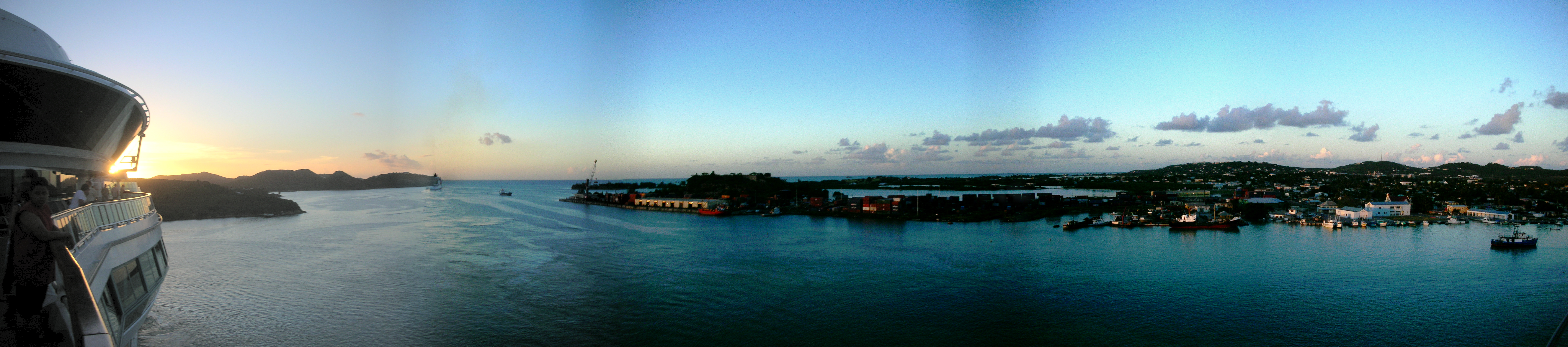 Panorama of the port of St. John's, Antigua, West Indies. Taken aboard Royal Caribbean's Serenade of the Seas cruise ship